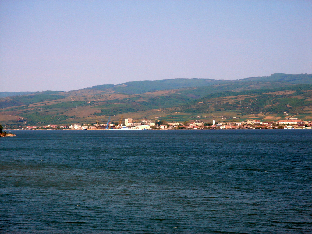 Moldova Nuoă in Romania, as seen from Serbia, accross the Danube.